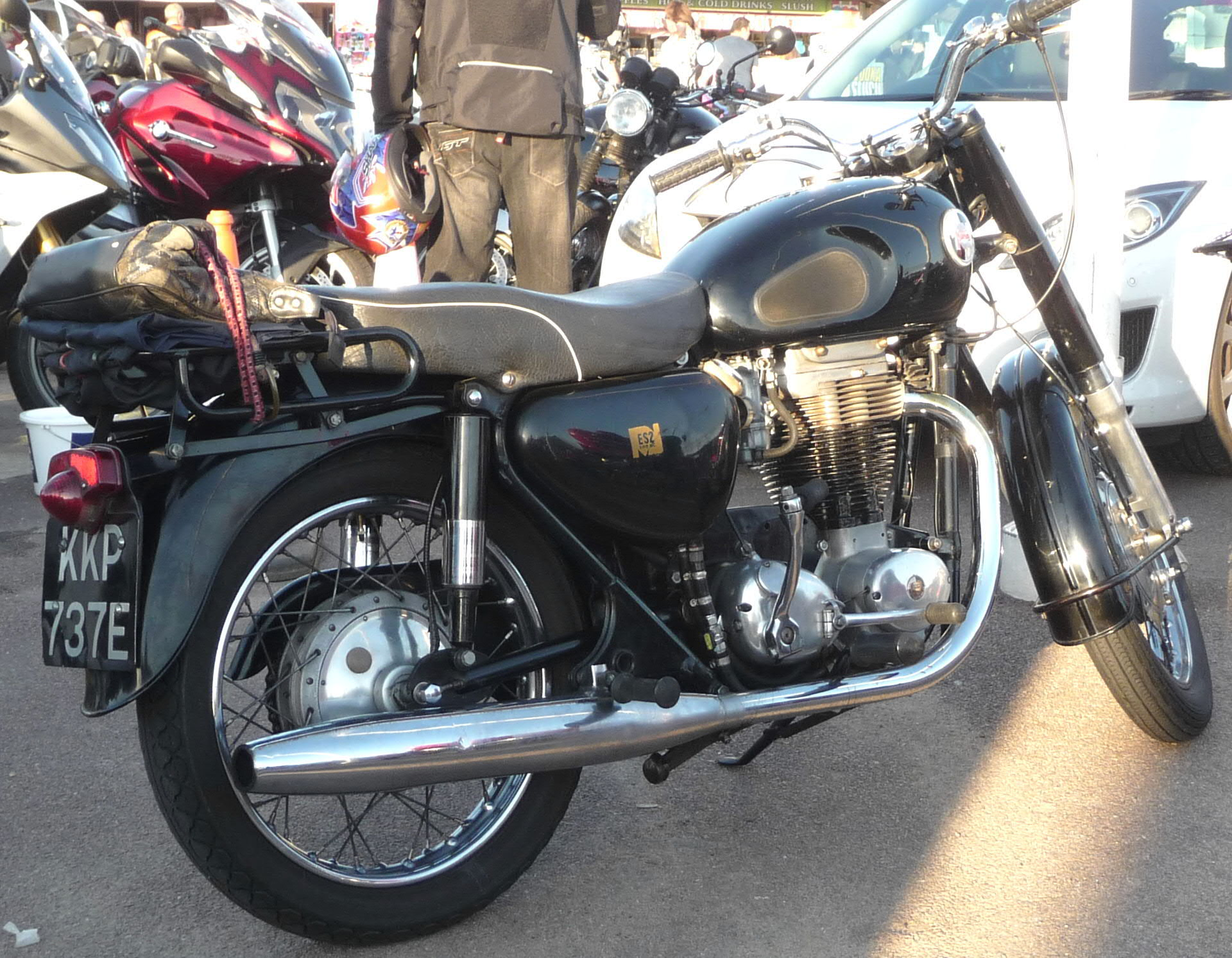 Norton ES2 Mk2 bearing a 1967 English registration plate, at Skegness Bike Night, 20 July 2017, an annual charity gathering to raise funds for the Royal National Lifeboat Institution